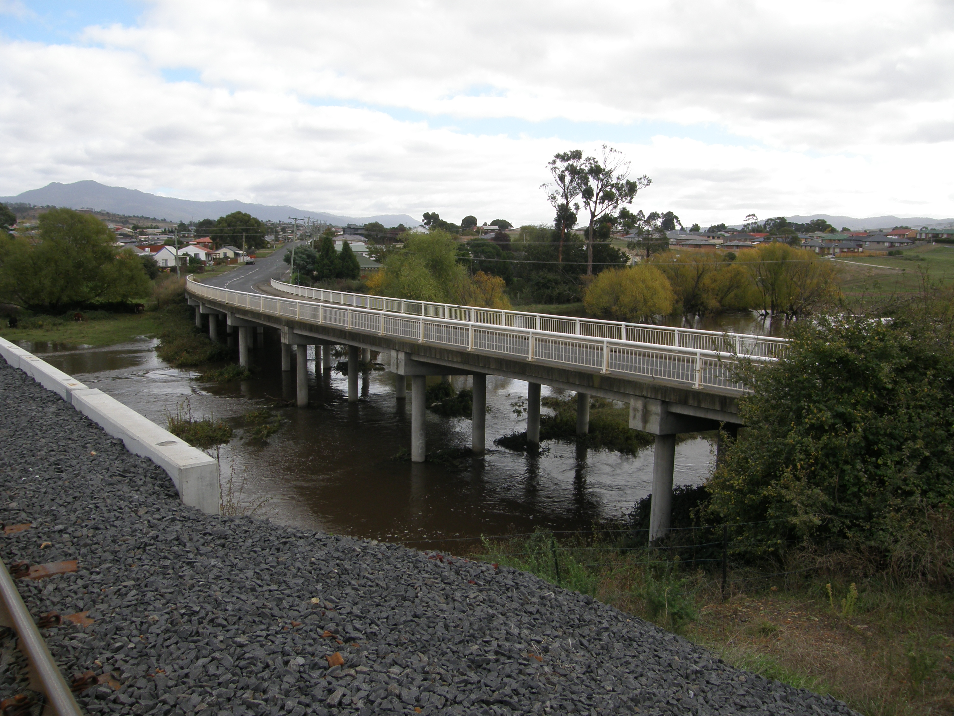 Facing North: A View under the Polonia Bridge